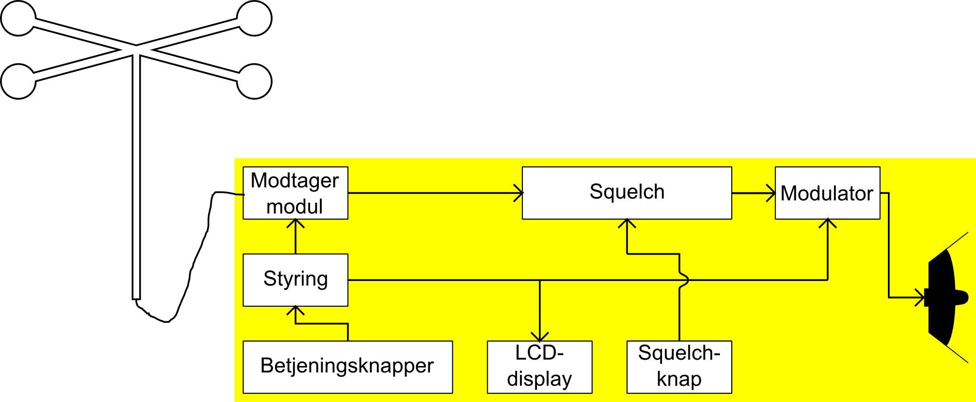 Principial drawing of a radio scanner